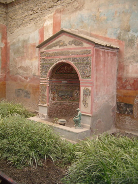 The Small Fountain House, Pompeii